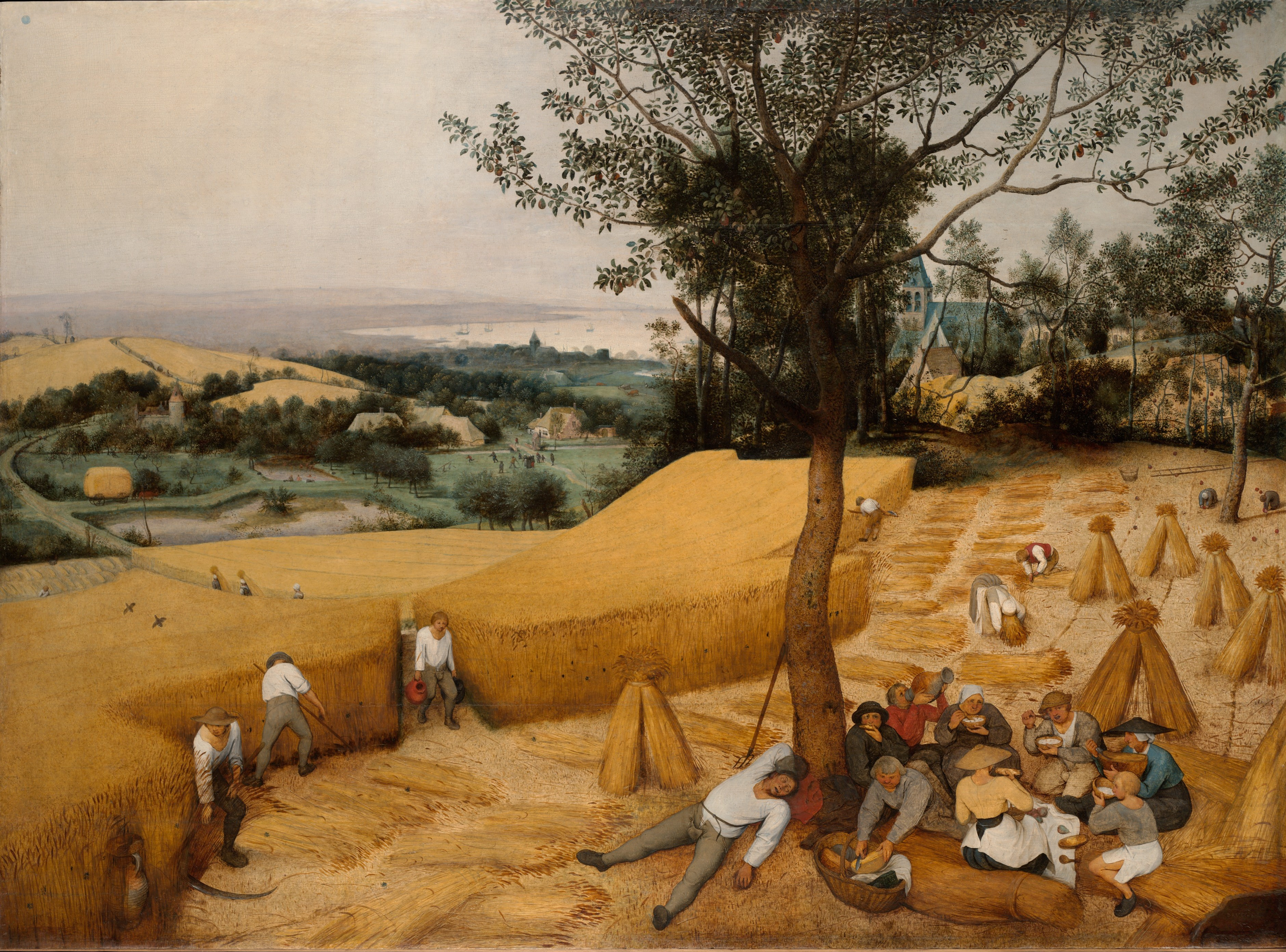 Part of the series The Seasons.